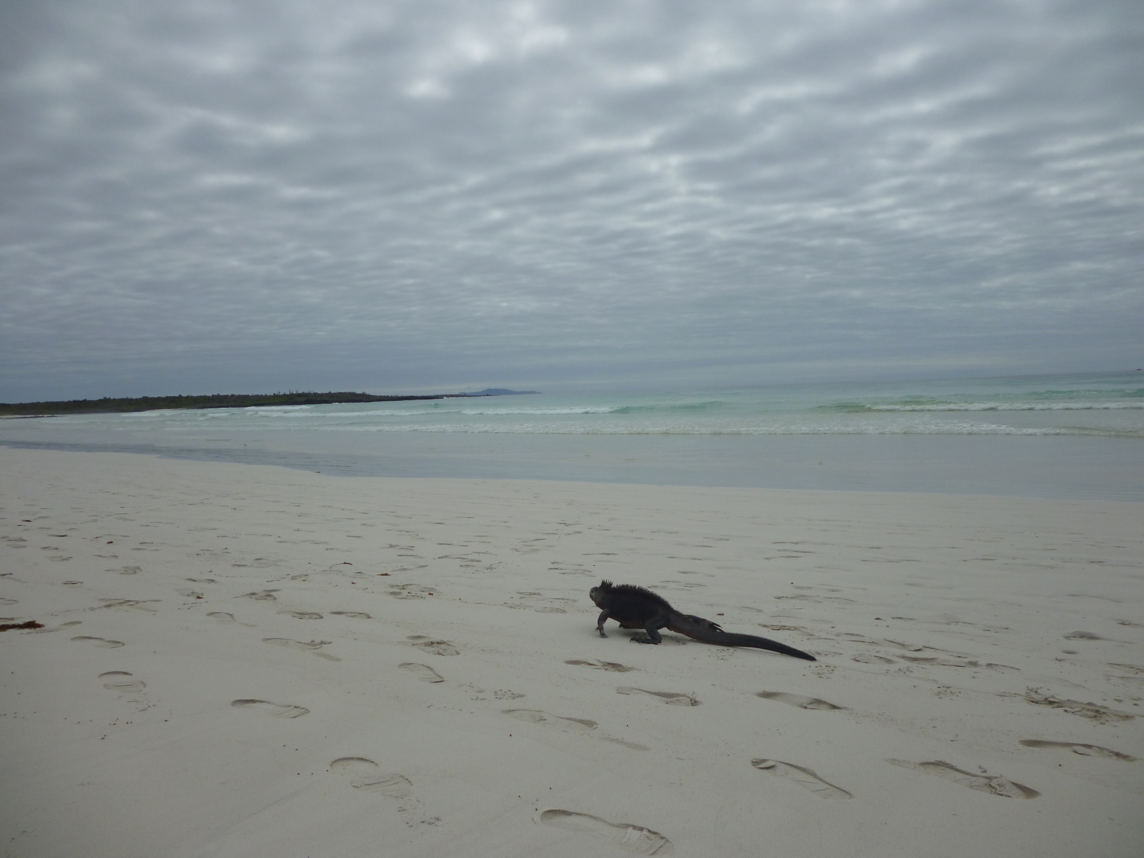 (Amblyrhynchus cristatus), Maine Iguana on the beach at Tortuga Bay - Island of Santa Cruz, Galapagos photographed by David Adam Kess